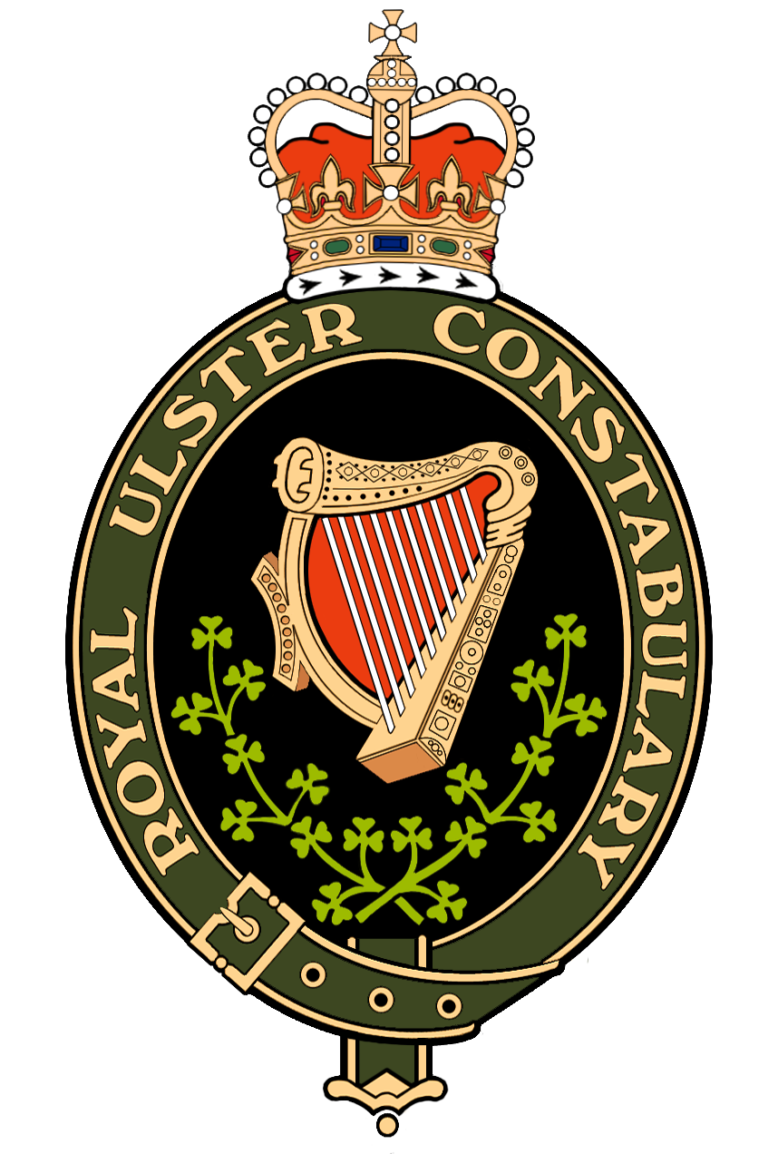 Harp and crown emblem of the RUC